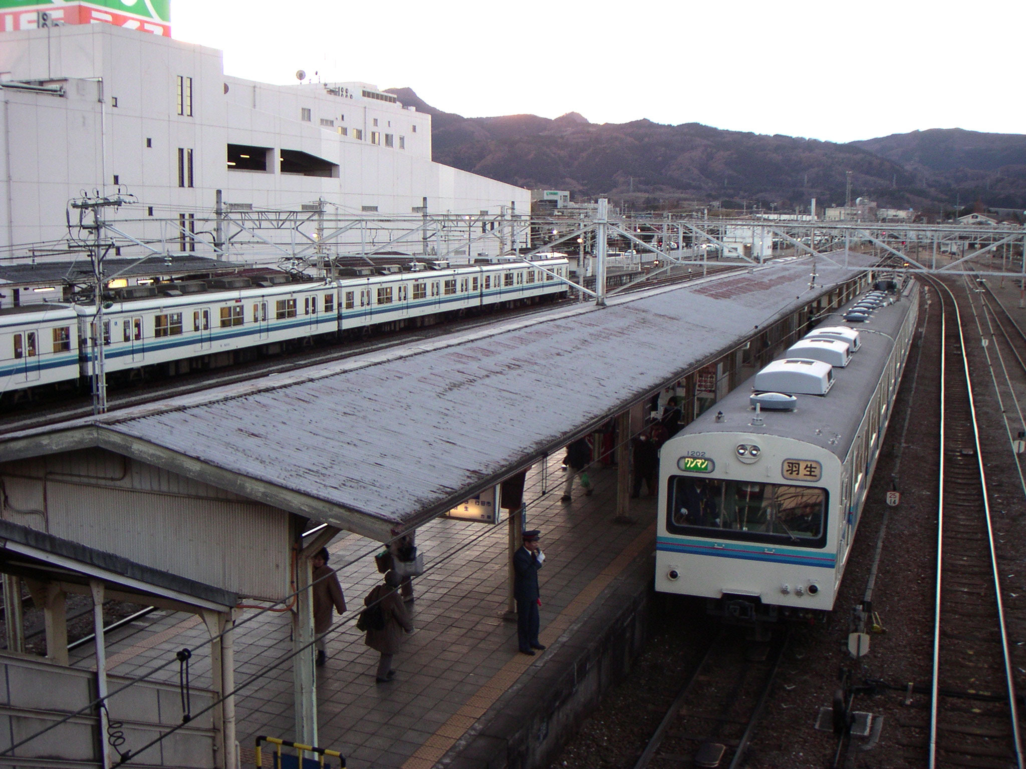 Yorii Station in Saitama Prefecture, Japan, with a Chichibu Railway 1000 series EMU visible